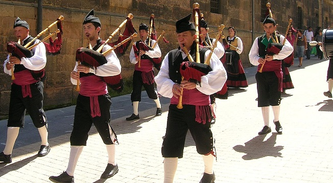 Bagpipe players, Spain